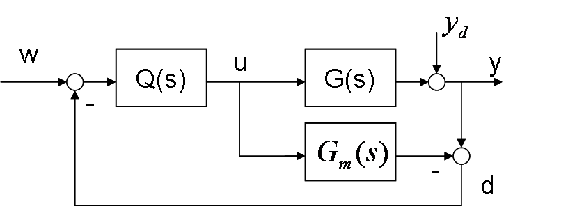 Internal Model Control